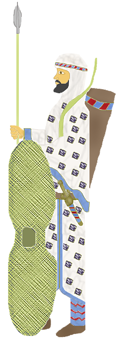 A work illustrated by myself depicting a Persian Army Immortal wielding a spear, wicker shield, dagger, and bow.